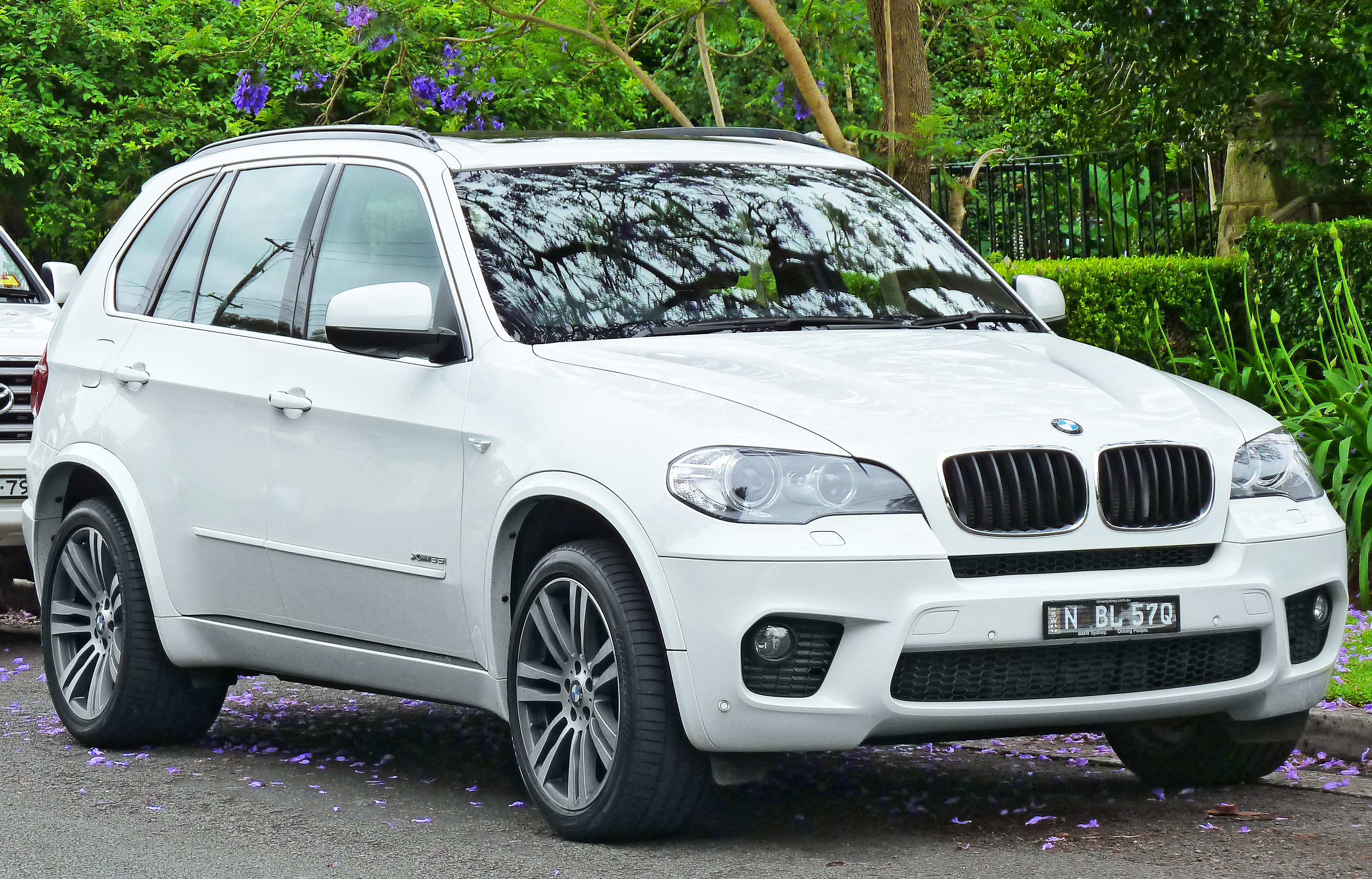 2010–2011 BMW X5 (E70) xDrive35i wagon. Photographed in Lindfield, New South Wales, Australia.